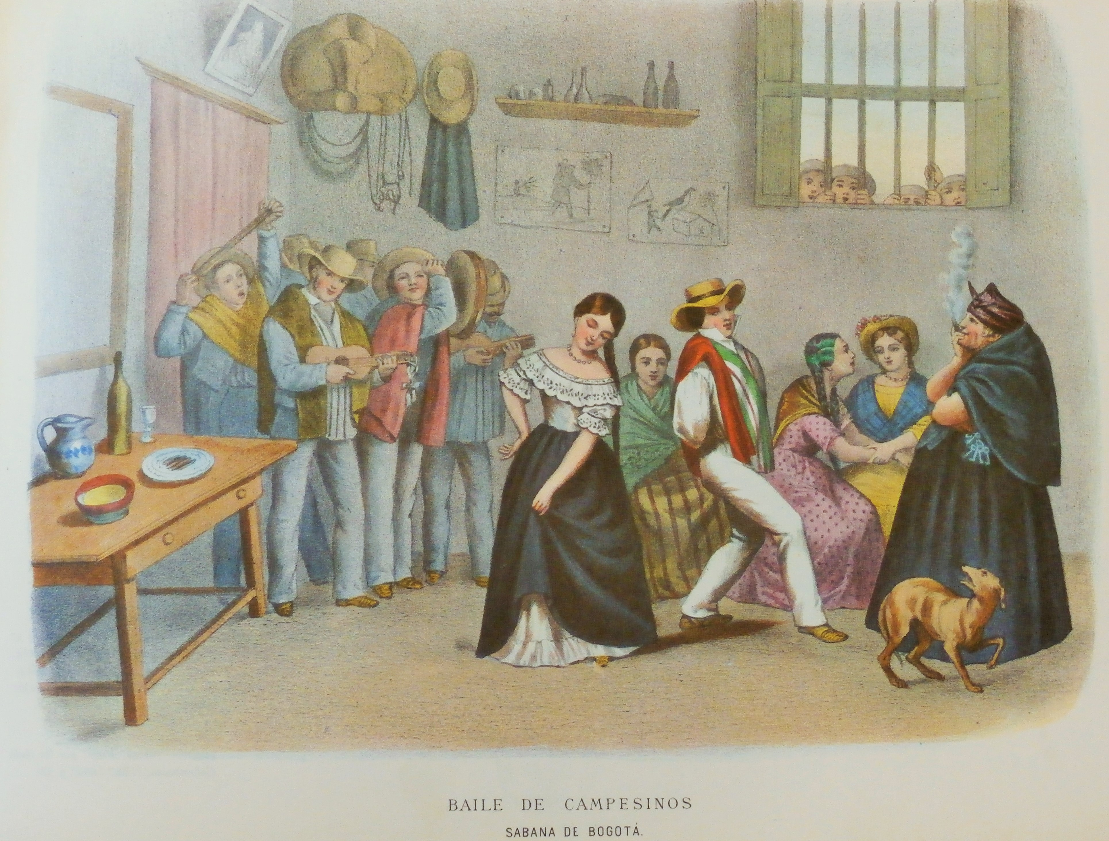 This lithography, baile de campesinos, compounds the book Costumbres neogranadinas.